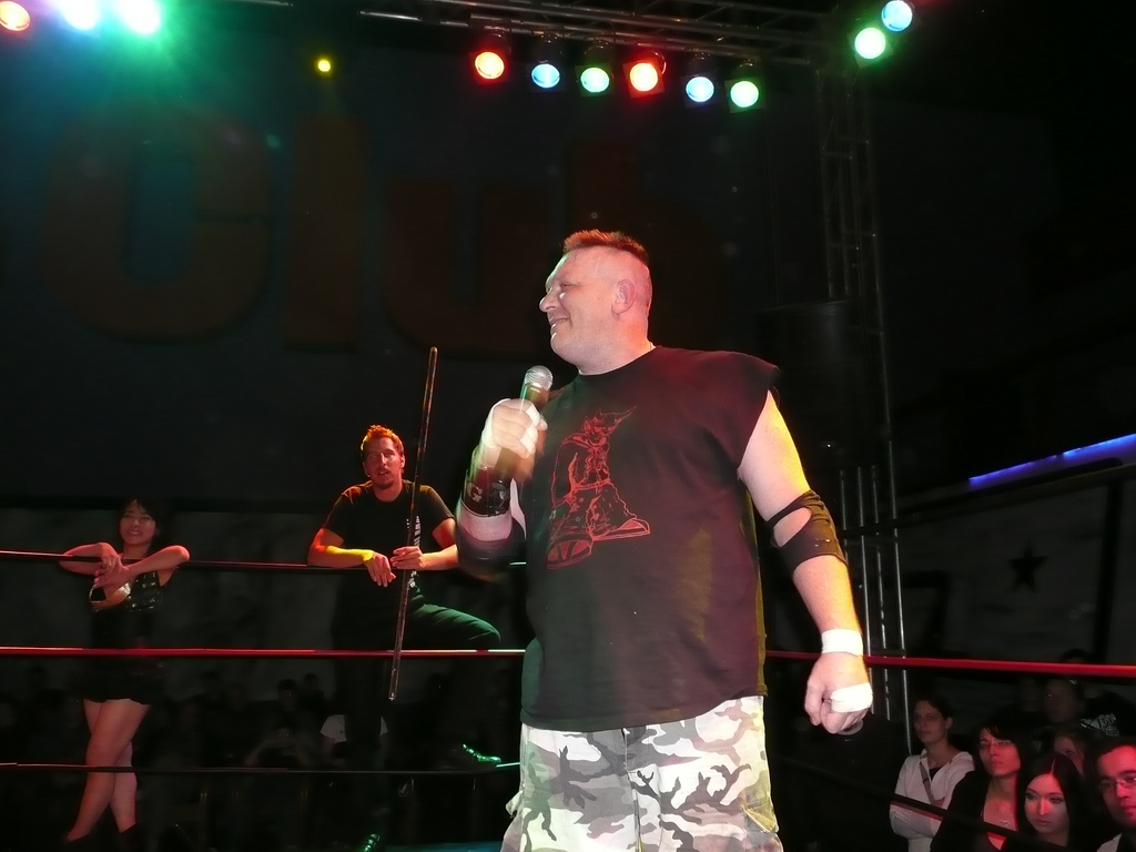 Mad Man Pondo at wXw True Colours 2008, in October 2008.